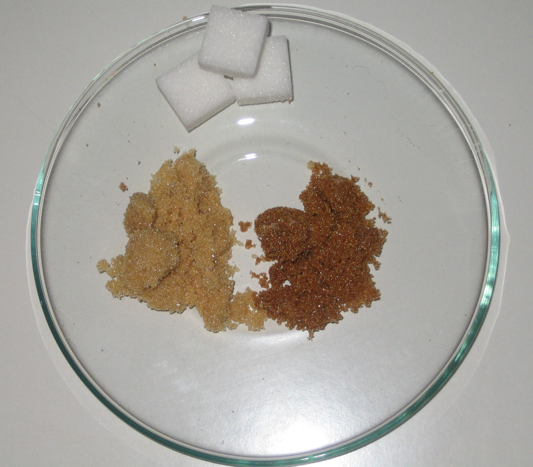 Sort of sugar of sugar beet, blond vergeoise and brown vergeoise.